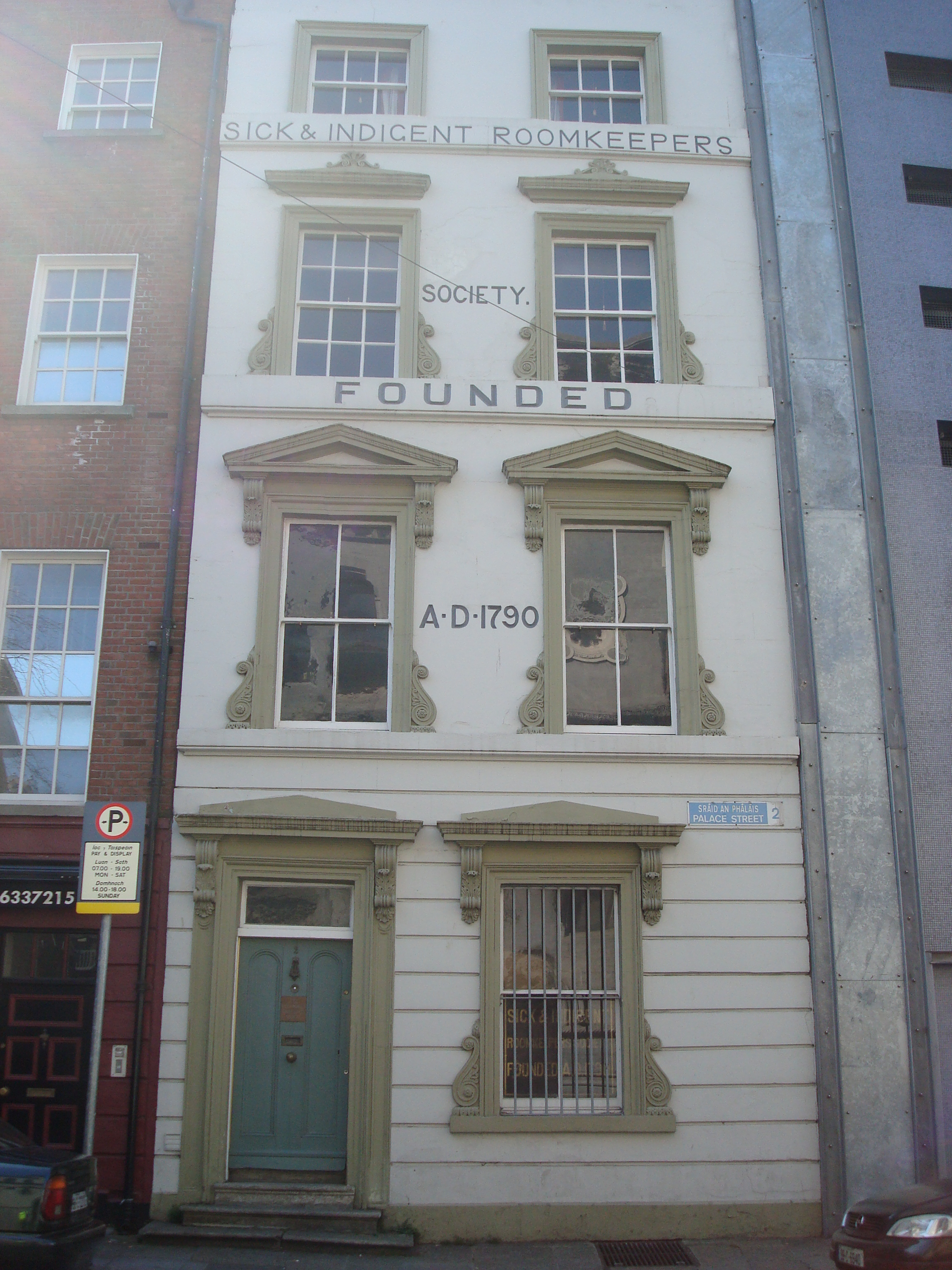 Sick and Indigent Roomkeepers' Society building, Palace Street, Dublin